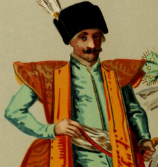 Portrait of Haller János